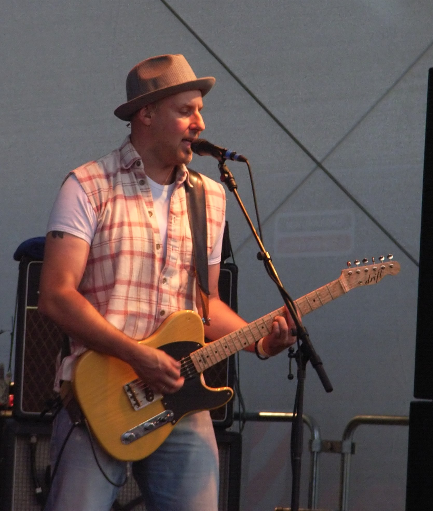 Thorsten Wingenfelder from Fury in the Slaughterhouse